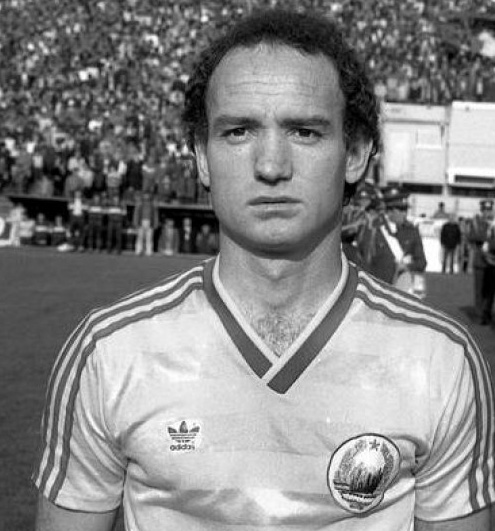 Nicolae Ungureanu playing for Romania